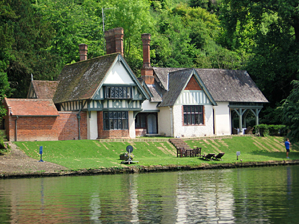 Cliveden House, Berkshire. Cottage (offered as part of the Cliveden House Hotel) where Profumo and Christine Keeler had their celebrated affair.